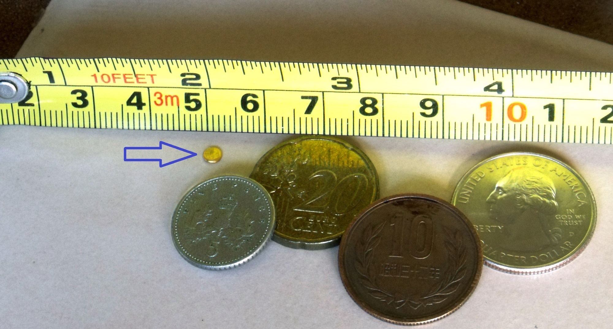 A picture showing one grain of pure gold and size comparisons with a 5 British pence, 20 euro cent, 10 yen and 25 U.S. cent coins. Also shown is a tape measure with Metric units on the bottom showing the diameter of the grain gold piece. The measured diameter is 3.18 mm or 1/8 inch.